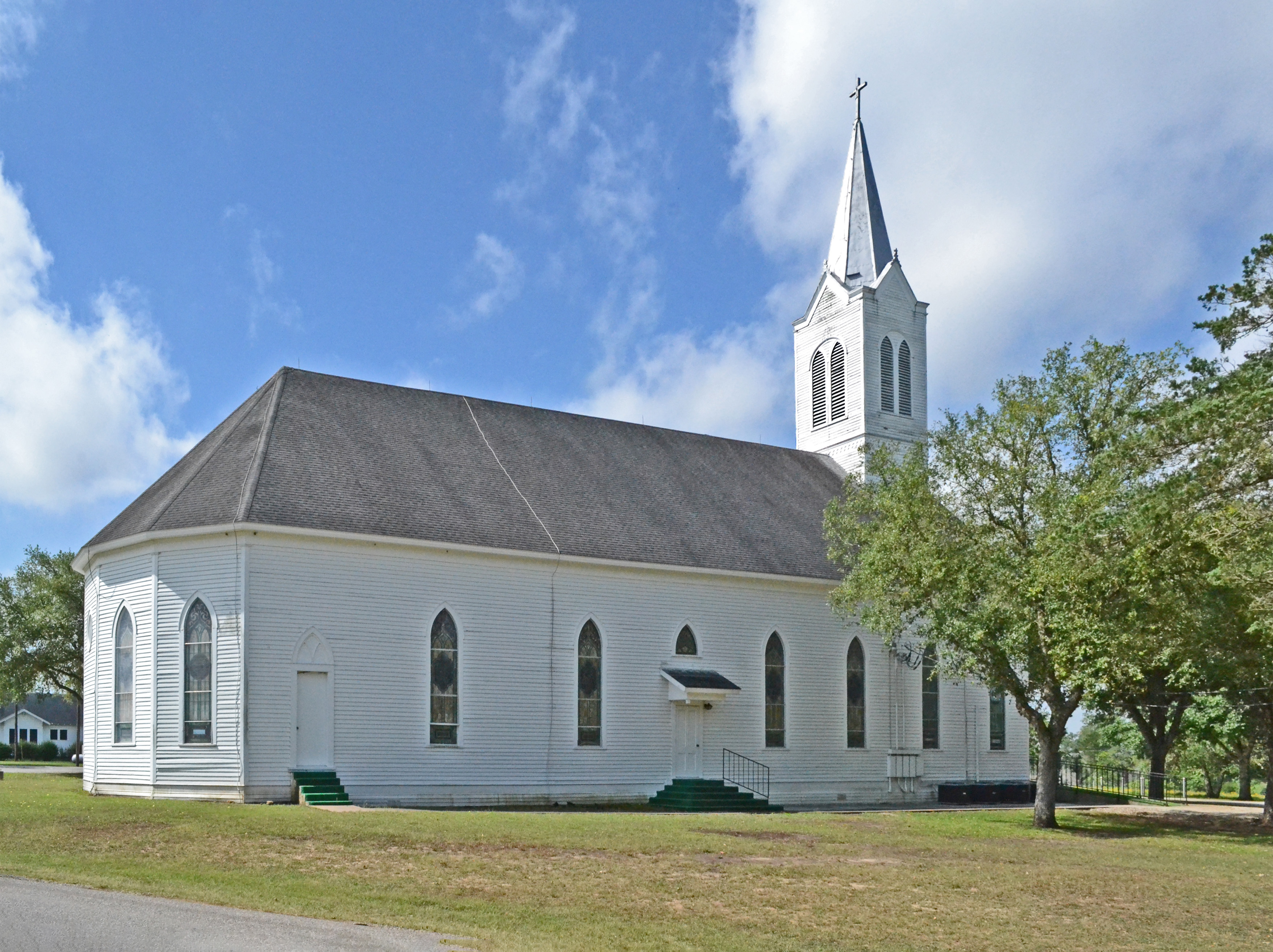 Church of the Immaculate Conception of Blessed Virgin Mary (St. Mary's Church), St. Mary's, Texas. Listed on the National Register of Historic Places.